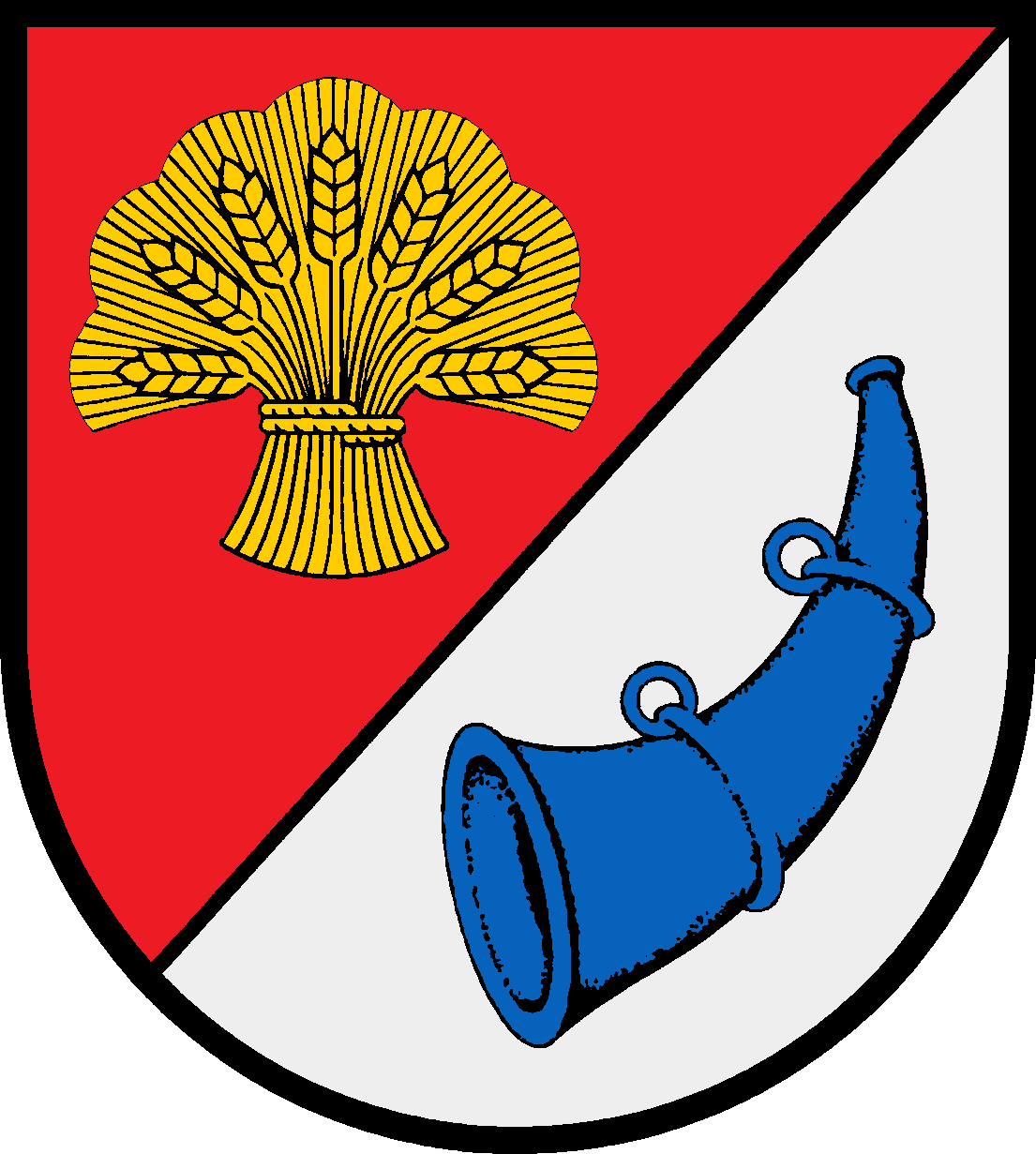 Coat of arms of the municipality Lutzhorn in Schleswig-Holstein, Germany.